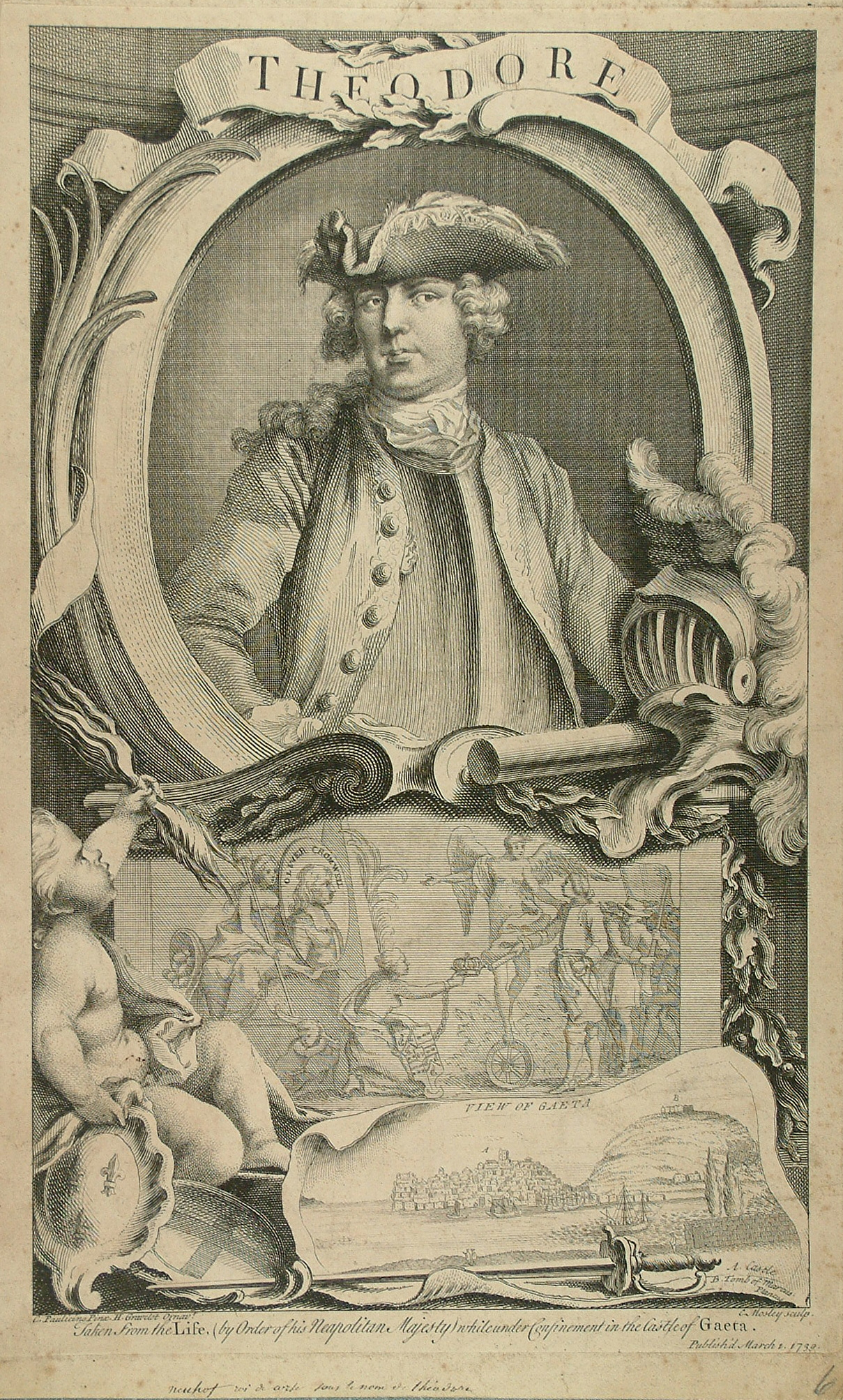 Portrait of Theodore von Neuhoff, briefly King of Corsica; half length, wearing three point hat and open jacket with large buttons down the left; in an oval frame with scenes from his life below, and a view of 'Gaeta'; a large plumed helmet at bottom right of oval, and a cherub sitting above coats of arms at bottom left. Etching and engraving